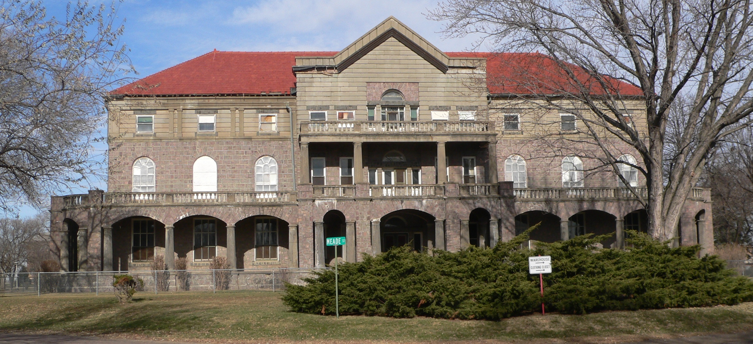 Buildings at Human Services Center, located at northwestern outskirts of Yankton, South Dakota. The Center is listed in the National Register of Historic Places.